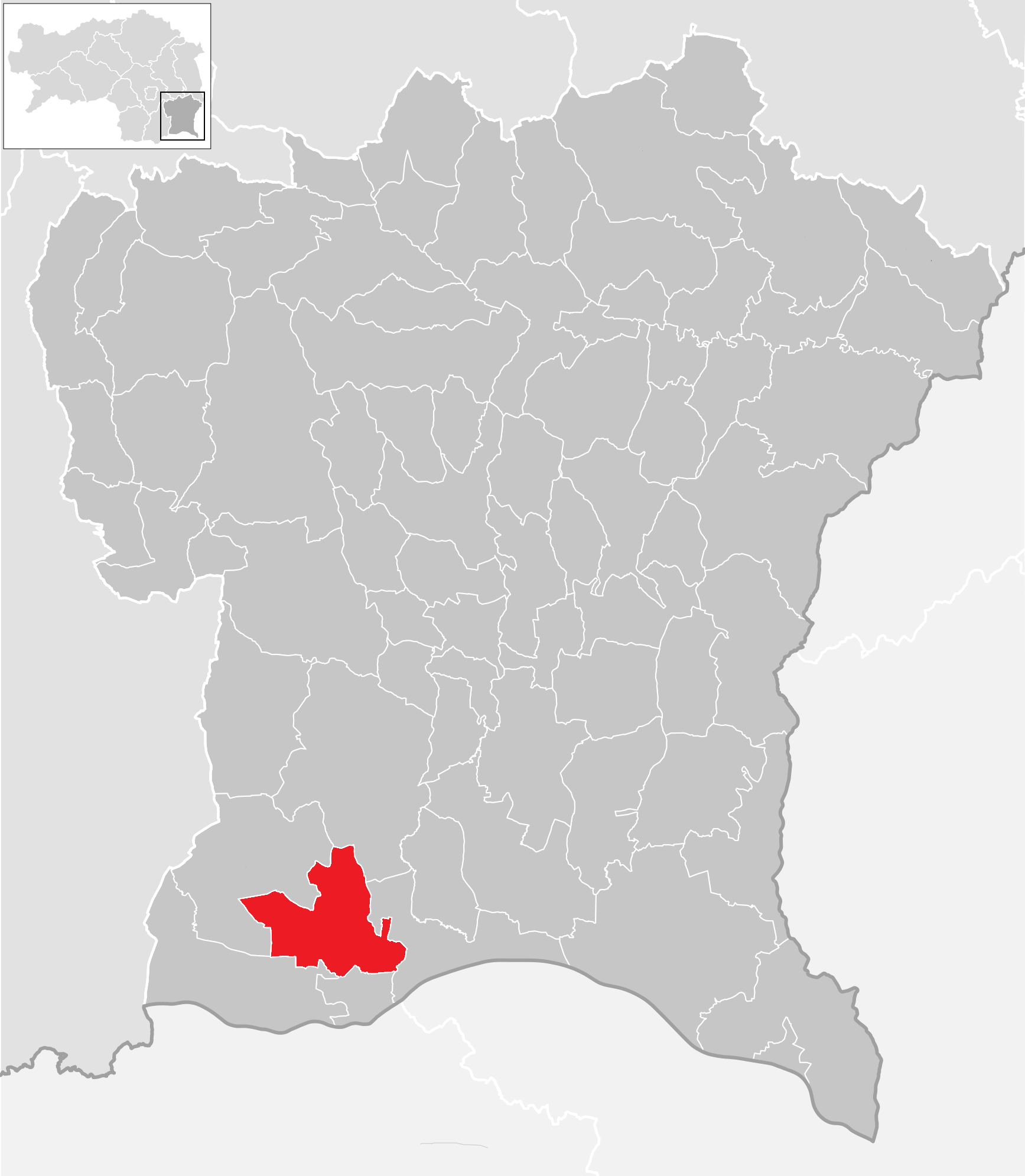 district Südoststeiermark